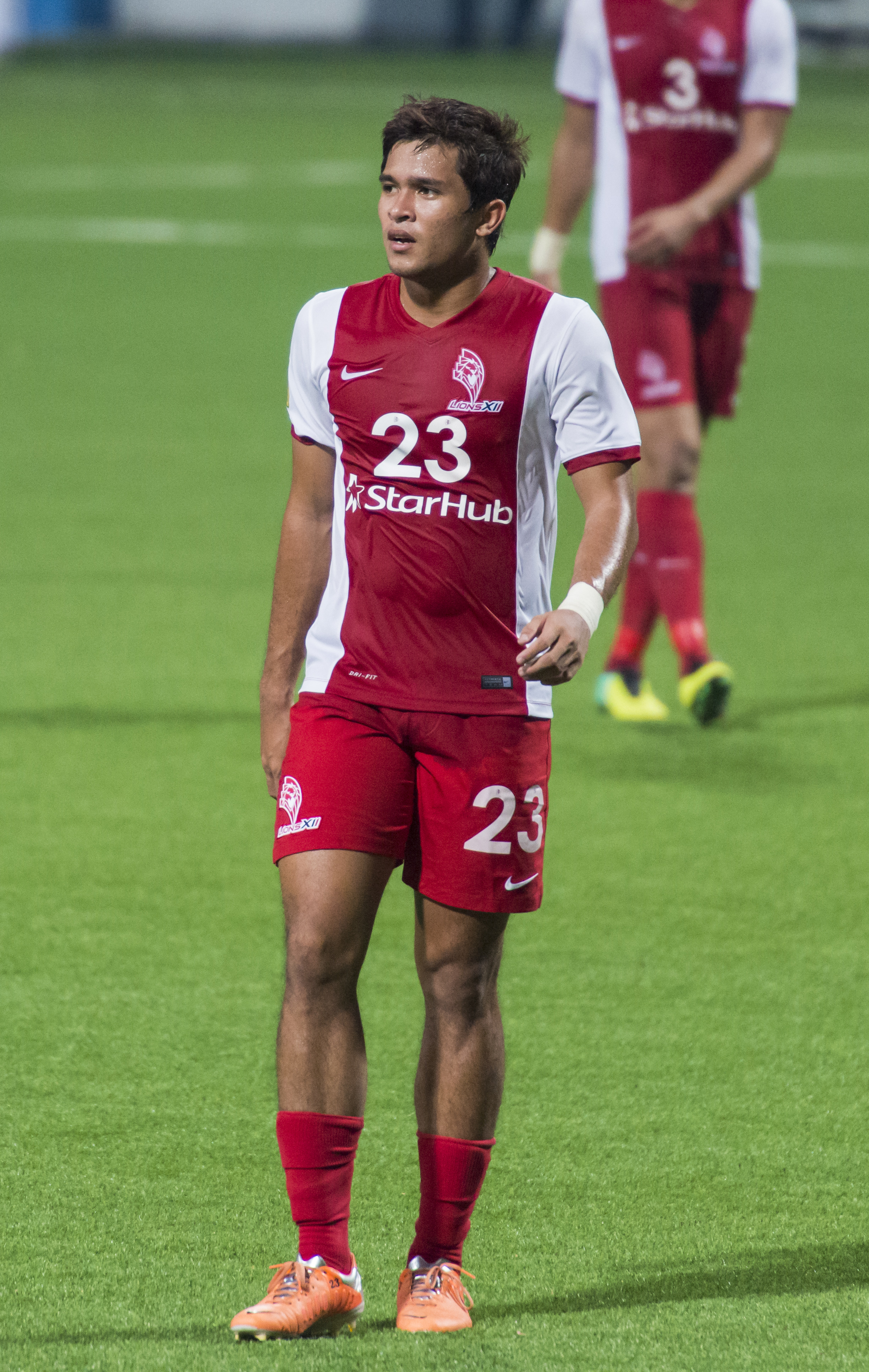 zulfahmi arifin 2014 lionsxii msl versus kelantan fa